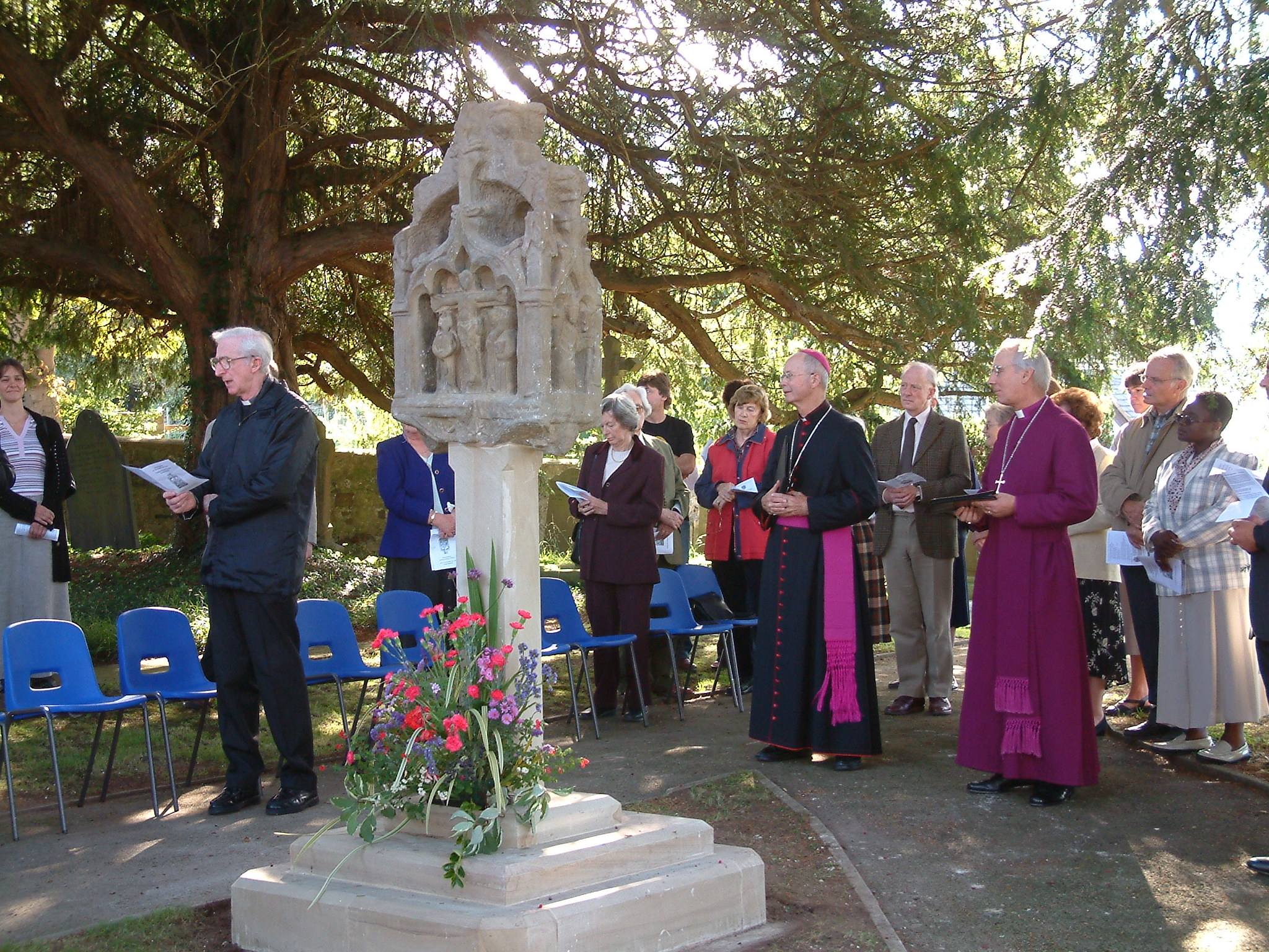 Dedication of the restored Celtic Cross at Tremeirchion led by Bishop Edwin Regan (Roman Catholic) and Bishop John Davies (Anglican Church in Wales)